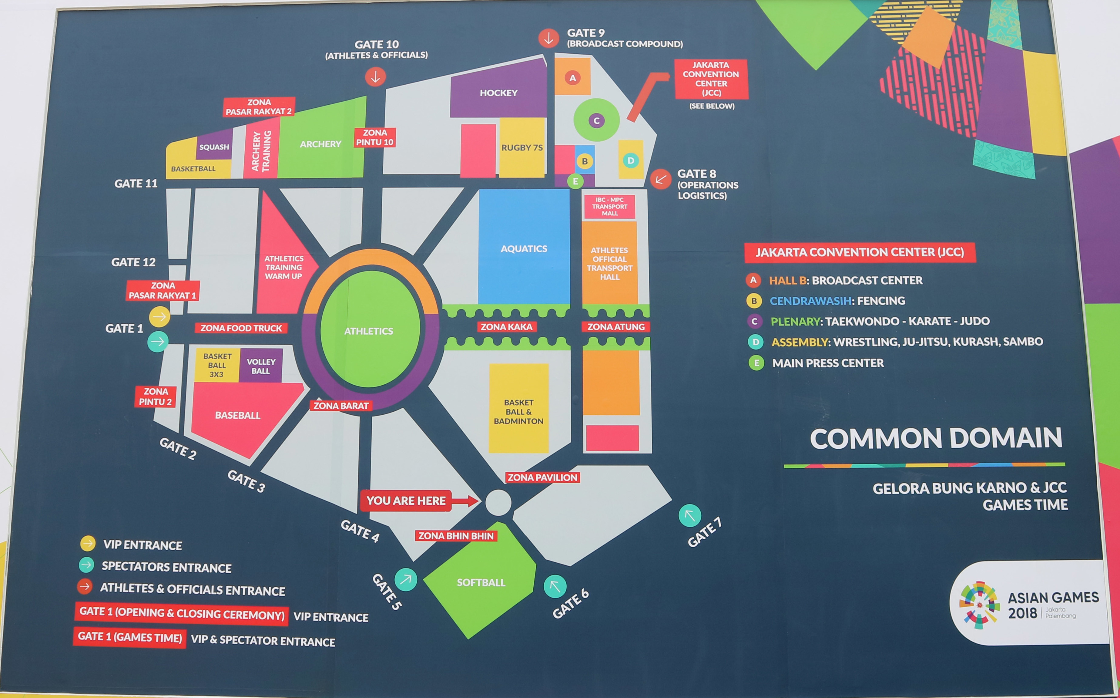 The map of Gelora Bung Karno sport complex in Senayan, Central Jakarta, during Asian Games 2018.